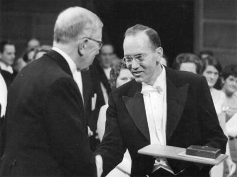 Charles Townes at the 1964 Nobel Prize ceremonies